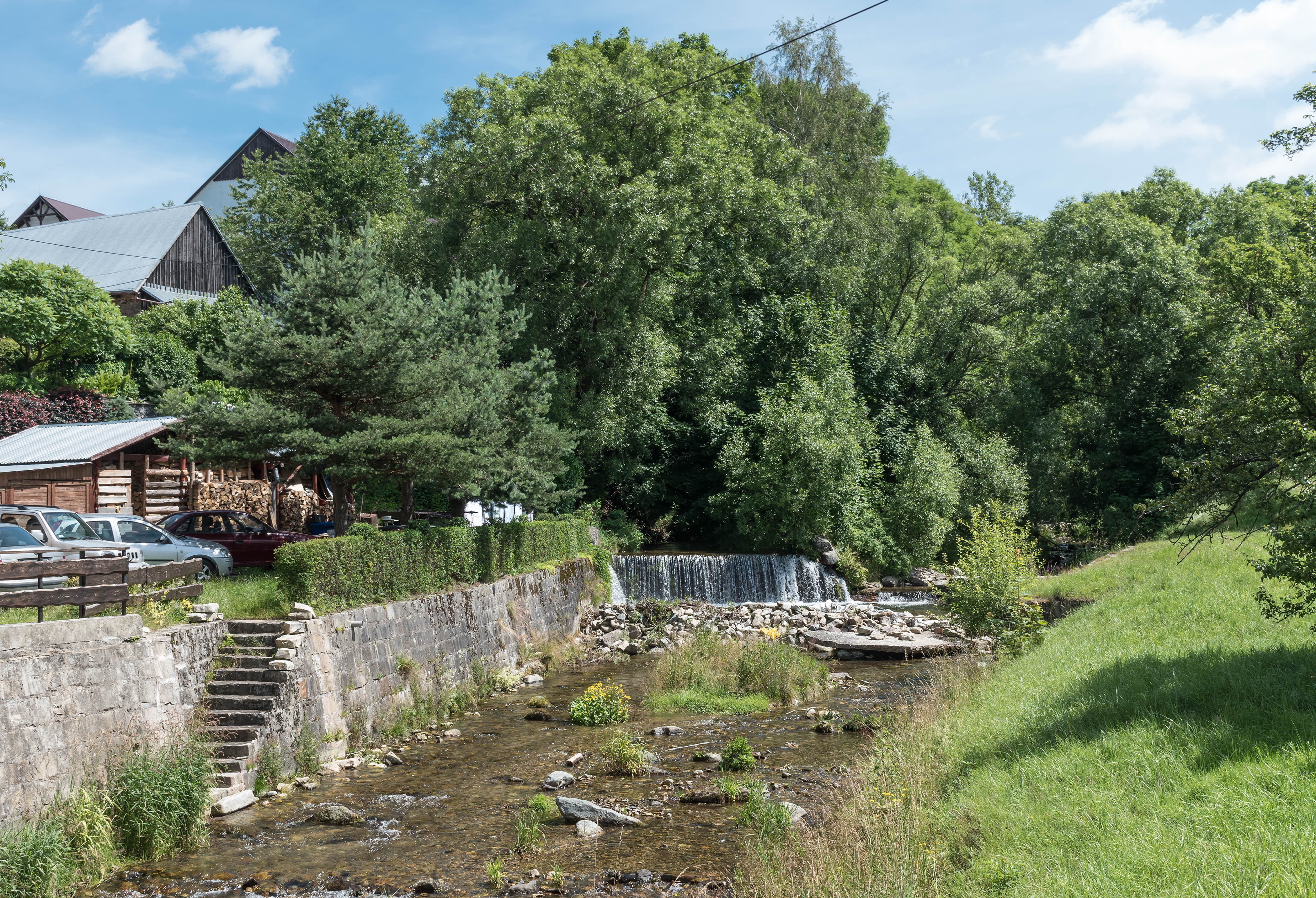 Nowy Gierałtów, waterfall on Biała Lądecka